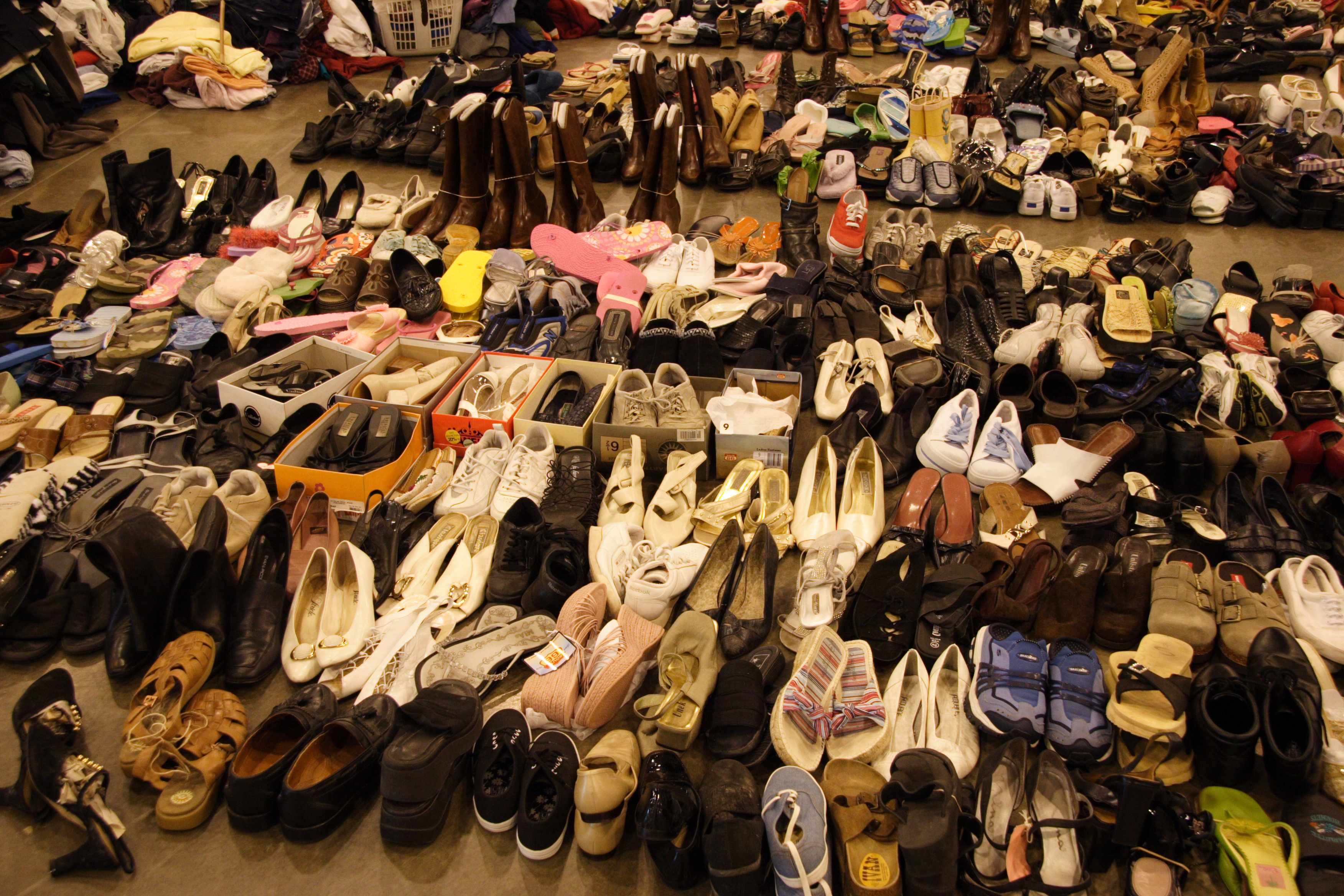 Houston, TX, September 2, 2005 -- Stockpiles of clothing, food, toothpaste, shoes, diapers and hundreds of other items are sorted in the Reliance Center for distribution to families arriving from New Orleans on the FEMA organized bus caravan. Photo by Ed Edahl/FEMA